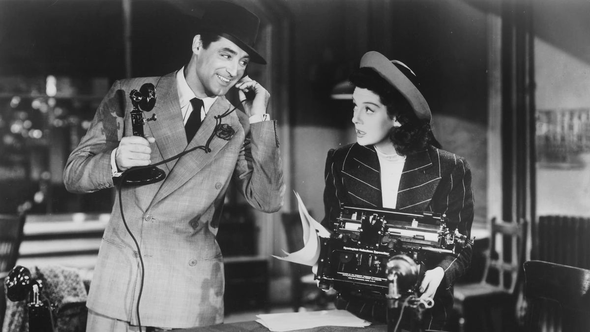 Cary Grant and Rosalind Russell in the 1940 film His Girl Friday. Rosalind Russell is wearing a costume designed by costume designer Robert Kalloch.